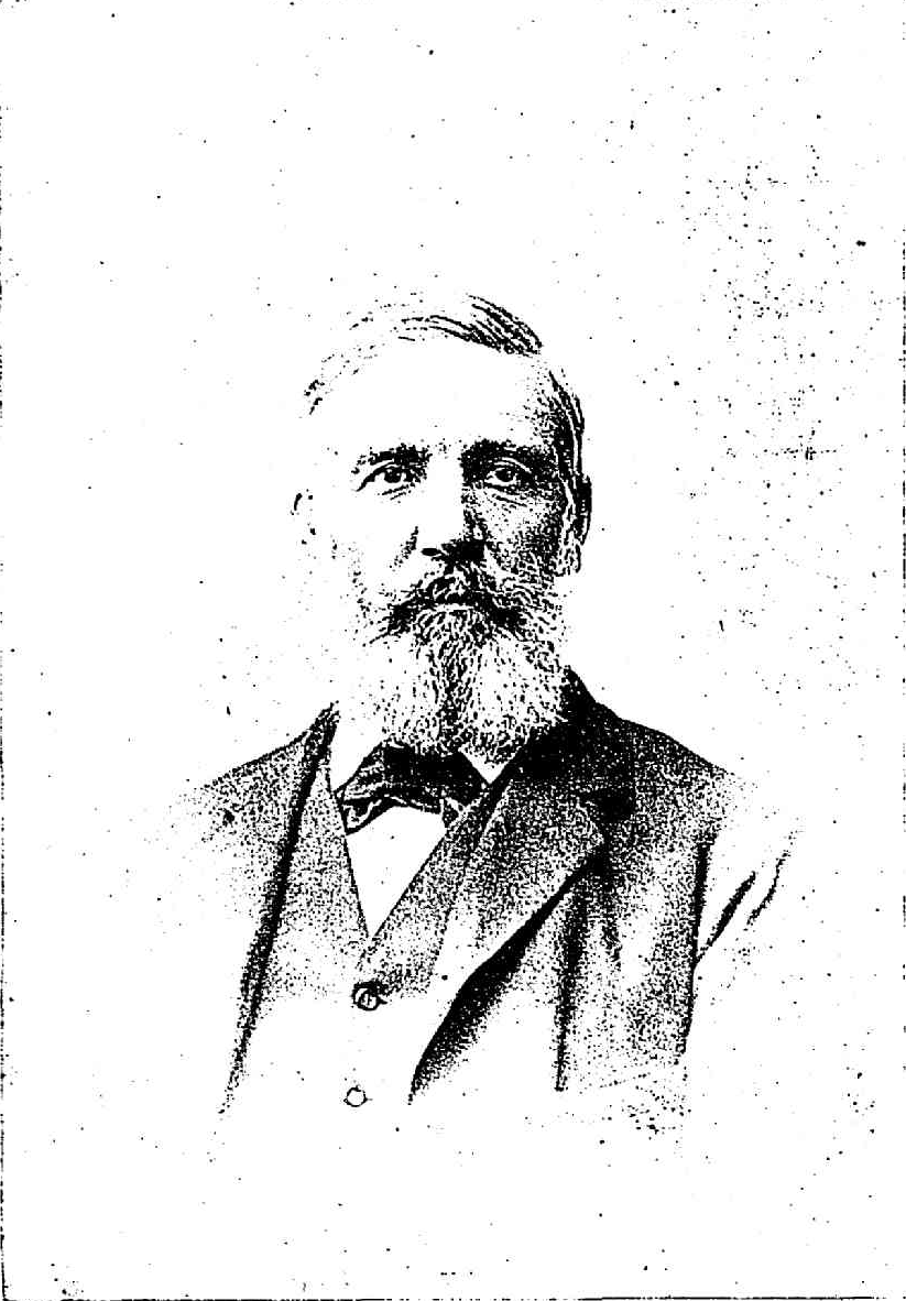 William Tatlock Chippindall, chairman of WIdgee Divisional Board, 1897